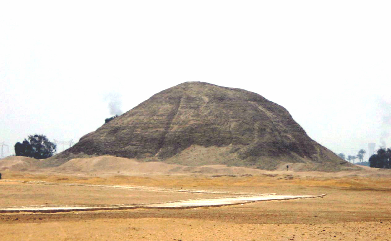 Replacement to original photo – taken by myself, 2005